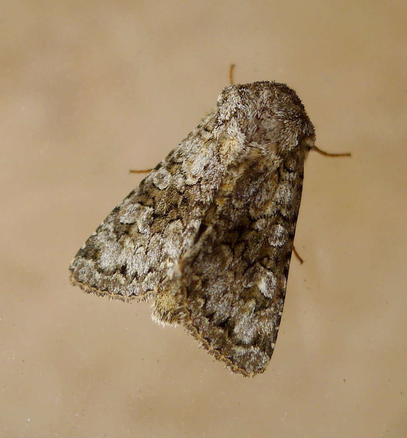 Polymixis lichenea. Feathered Ranunculus